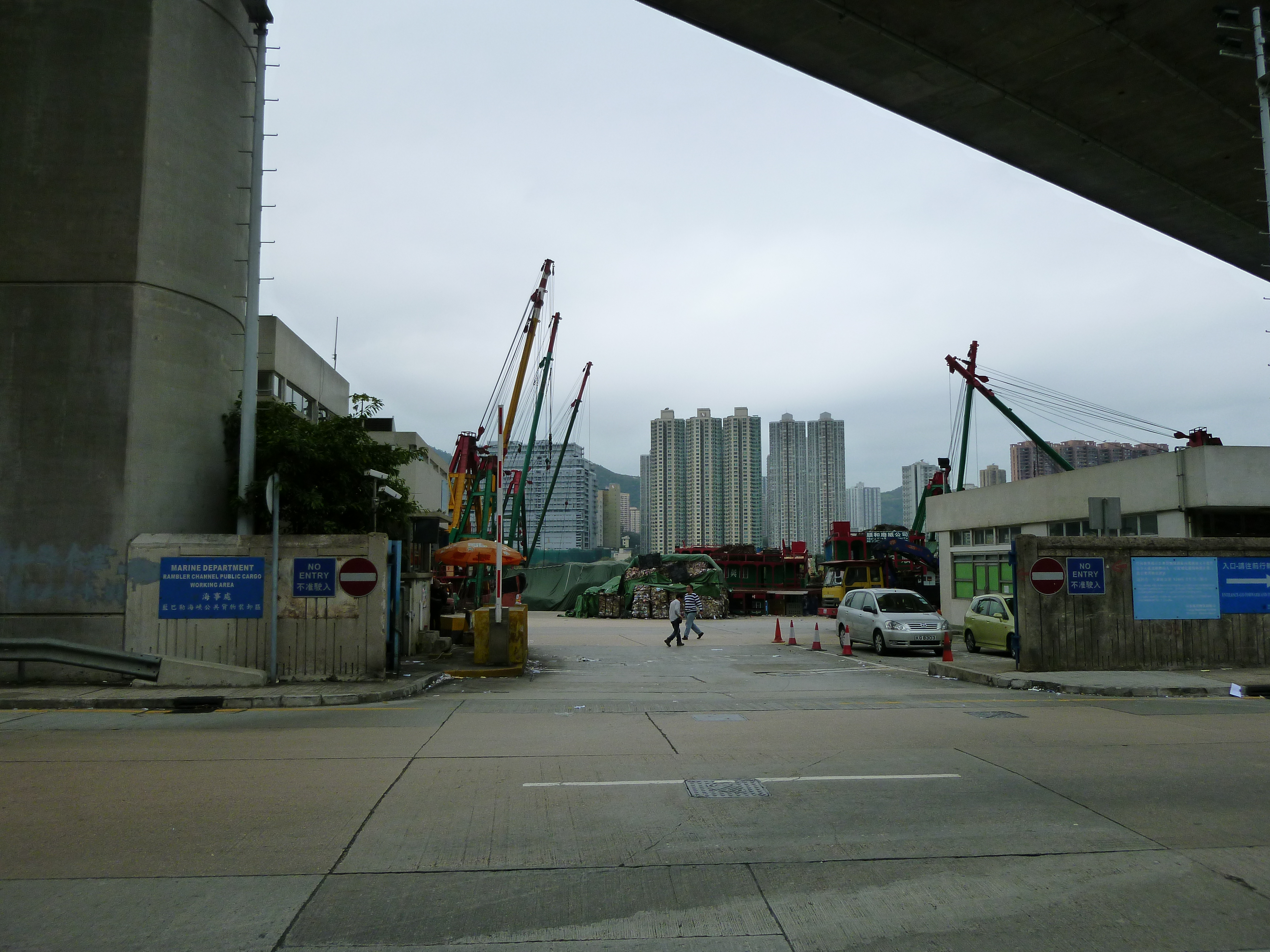 Rambler Channel Public Cargo Working Area (3 Wing Shun Street, Kwai Chung, New Territories, Hong Kong)